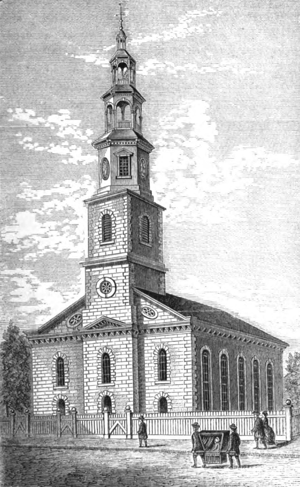 Caption in book reads: "St. George’s Chapel, Beekman Street, N. Y. Erected 1752."